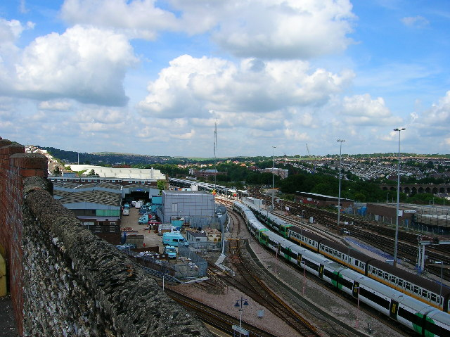 Brighton Railway Maintenance Depot.